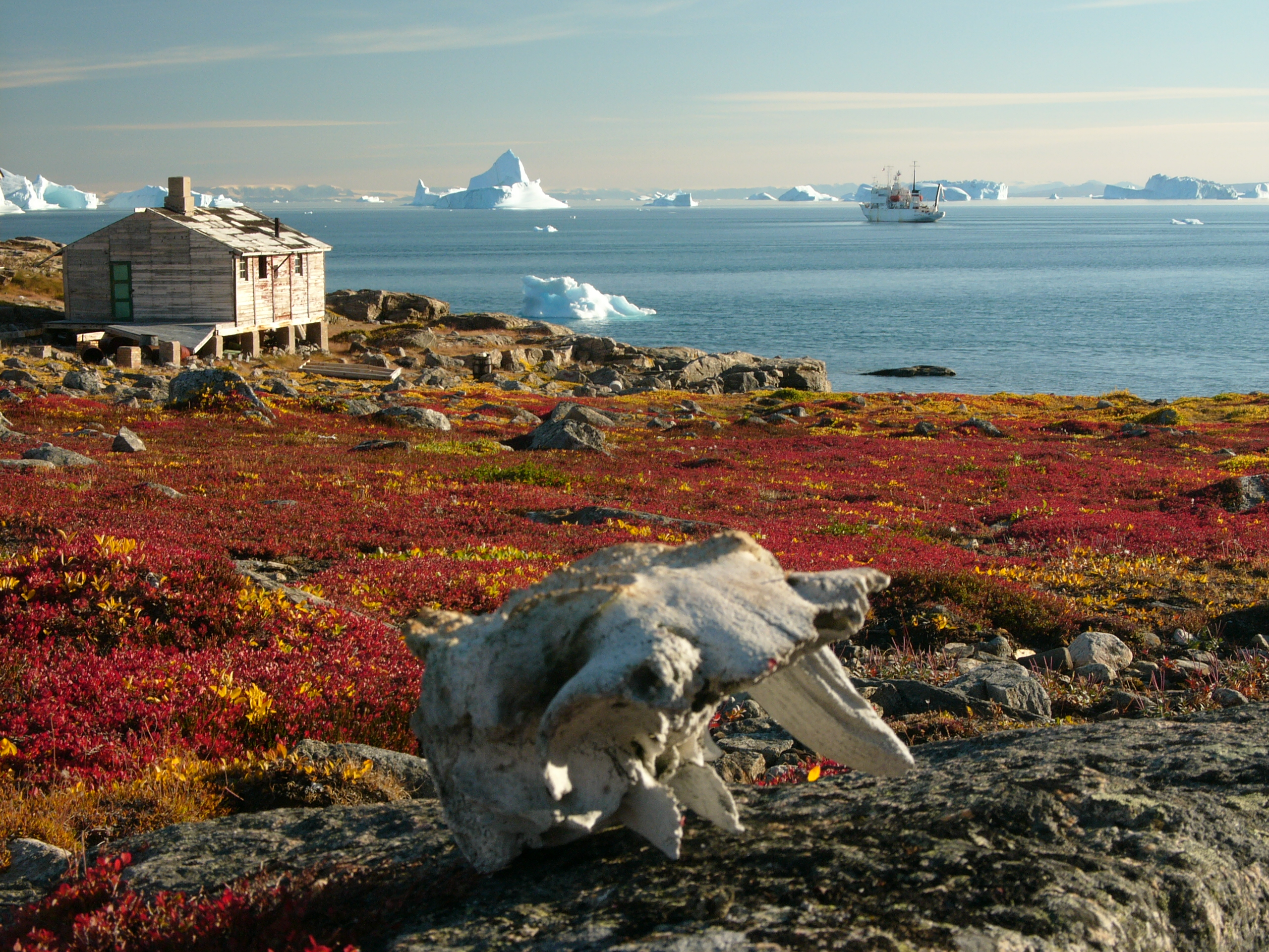 Sydkap in Scoresby Sund, East Greenland; skull of Muskox in the foreground; vegetation is mostly Salix glauca, Russian research vessel MV MULTANOVSKIY in the fjord.